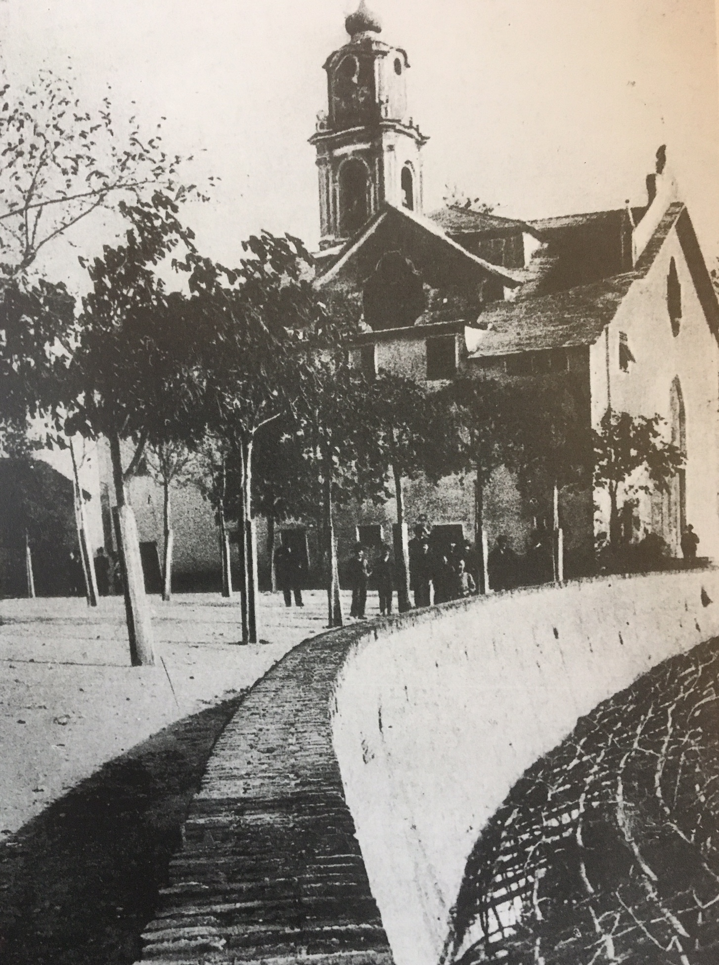 Chiesa Cesino 1900